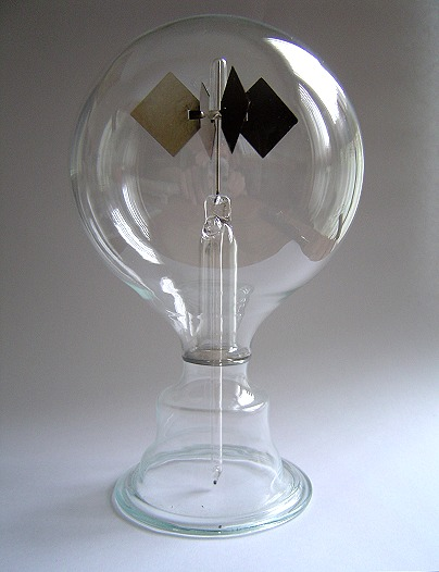 Crookes Radiometer — Taken March of 2005 by Timeline. I took the photo myself and am happy for it to be distributed and used for any purpose without restriction.